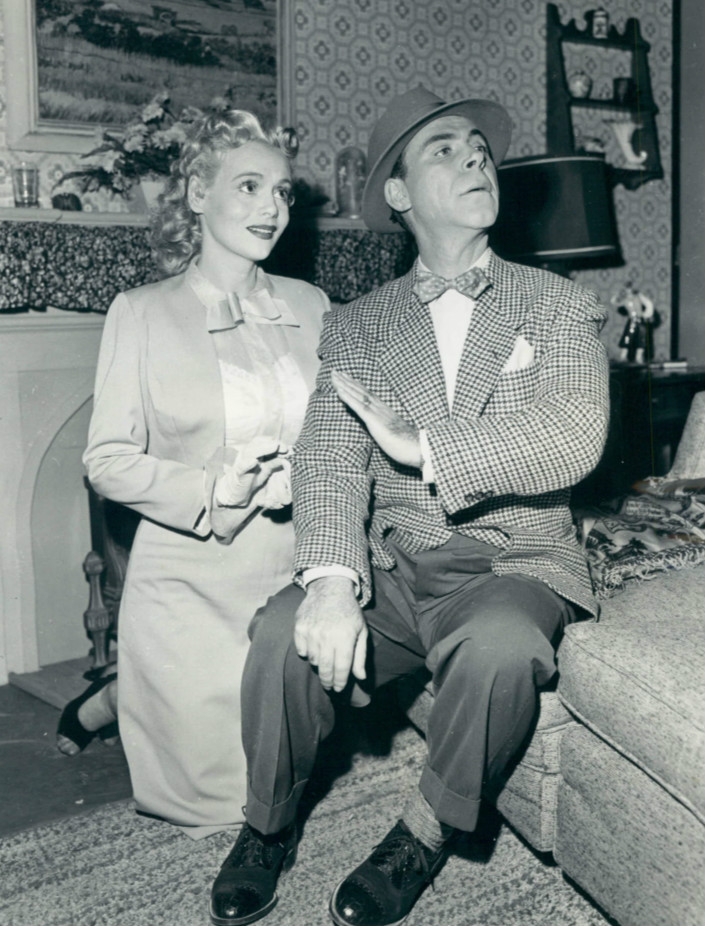 Publicity photo of Marie Wilson (Irma) and Sid Tomack (Al) from the television program My Friend Irma. The photo depicts a misunderstanding between Irma and boyfriend Al.